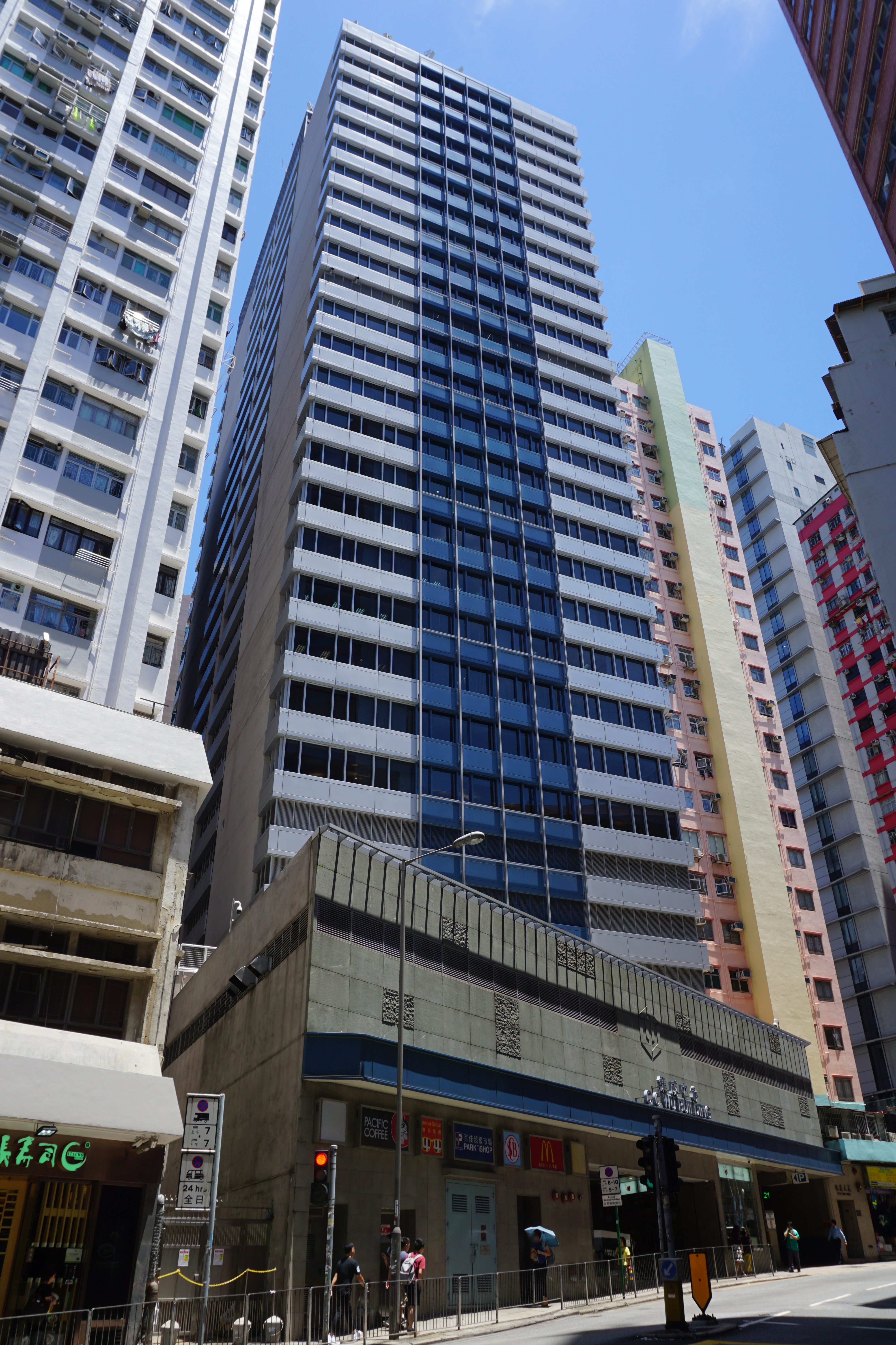 C.C.Wu Building in Wan Chai, Hong Kong.